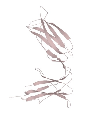 KIR2DL3